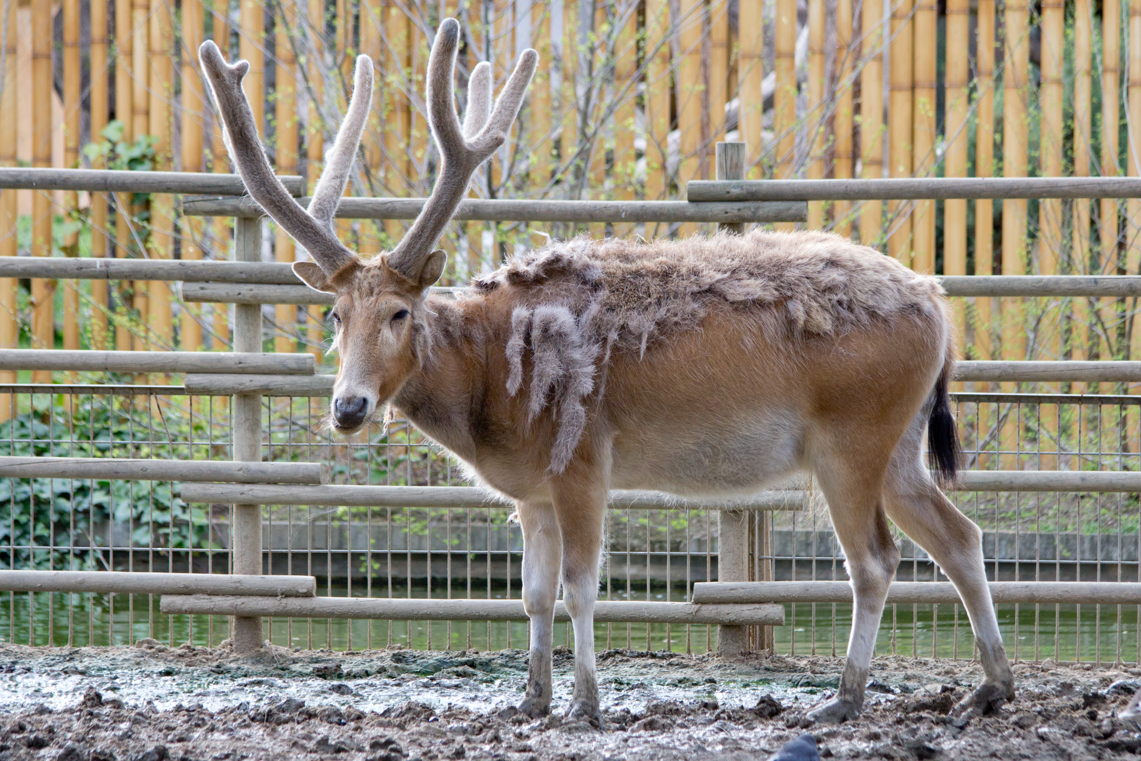 Père David's deer or milu (Elaphurus davidianus) at the Zoo of Madrid, Spain.